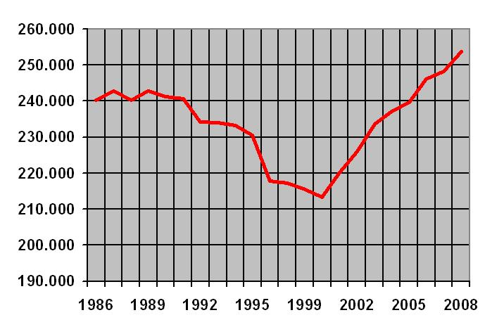 Carabanchel's population (1986-2008).